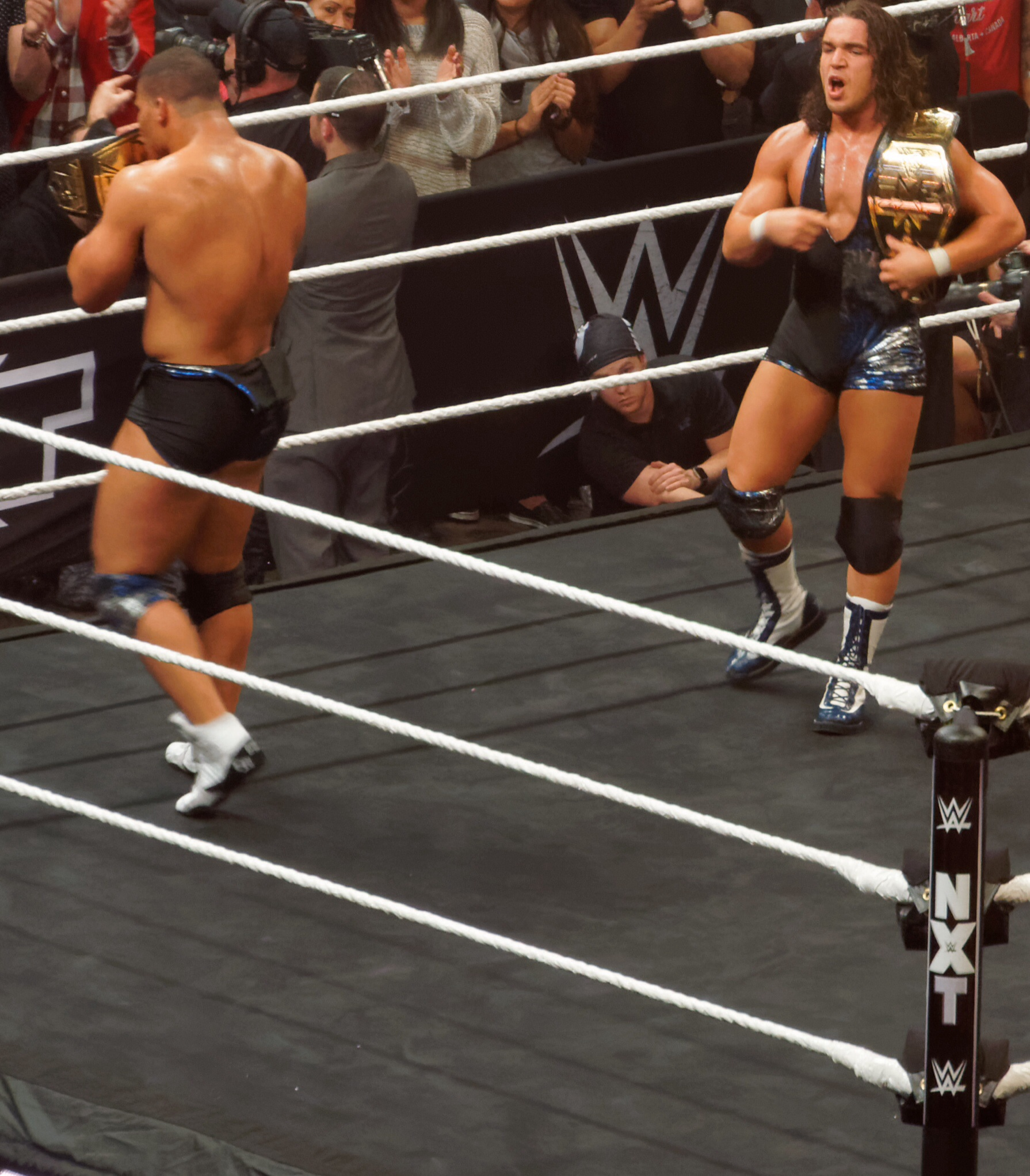 NXT TakeOver: Dallas was a major professional wrestling show in the NXT TakeOver series that took place on April 1, 2016, produced by WWE, showcasing its NXT developmental brand, and was streamed live on the WWE Network. It took place in the Kay Bailey Hutchison Convention Center in Dallas, Texas, during the weekend of WrestleMania 32. It was the first show in the NXT TakeOver series to be broadcast live on the WWE Network during WrestleMania weekend and first of 2016.[4] It was notable for Shinsuke Nakamura's WWE debut and first live match. The event received critical acclaim, with critics endorsing it as being better than WWE's WrestleMania 32 held two days later. The Zayn-Nakamura match was also lauded for being better than any match from WrestleMania 32. Chad Gable & Jason Jordan def.(pin) Dash Wilder (c) & Scott Dawson (c) for the NXT Tag Team Titles (title change)